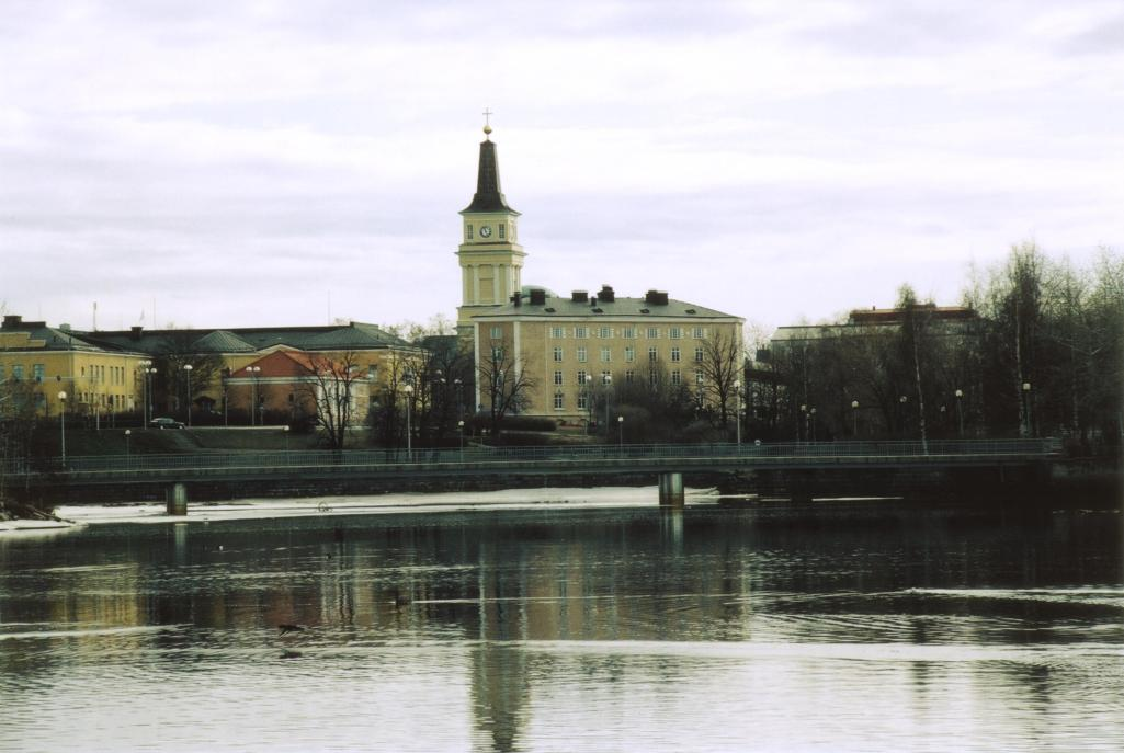 Pokkitörmä, Oulu, Finland.